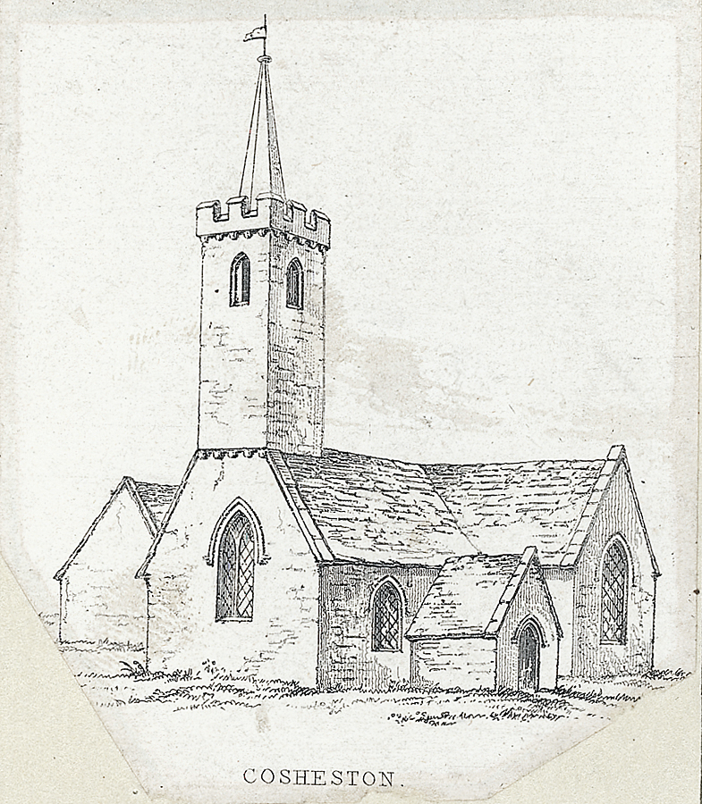 Engraving of St Michael's parish church, Cosheston, Pembrokeshire